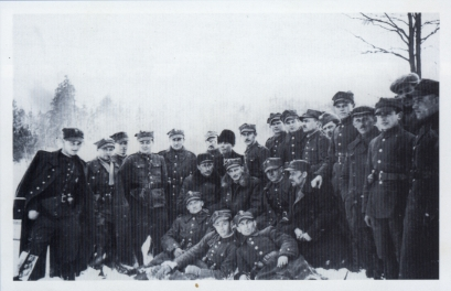 Soldiers of major Hubal